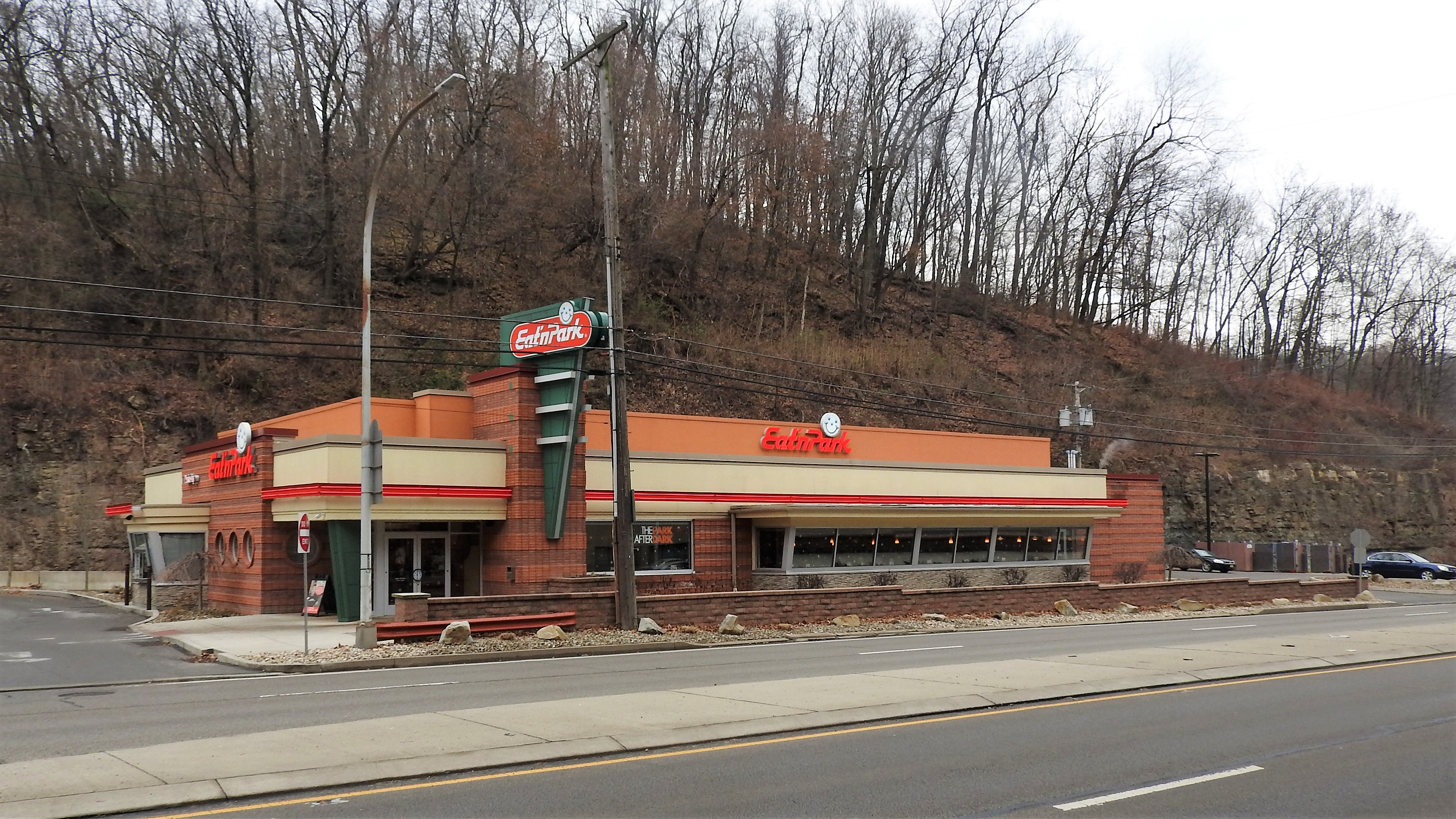 Looking northwest across the road on a cloudy morning